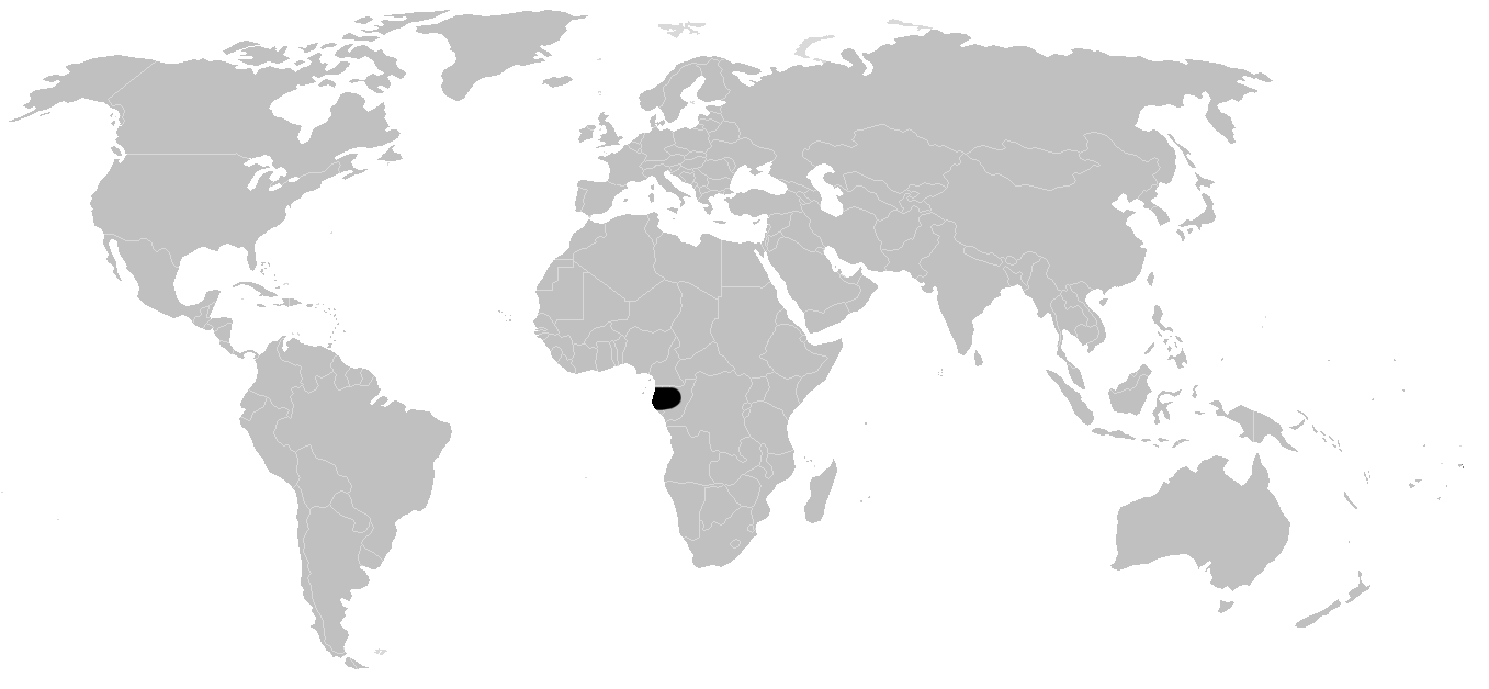 World distribution of harvestman family Ogoveidae, after Pinto-da-Rocha et al. 2007: 79.